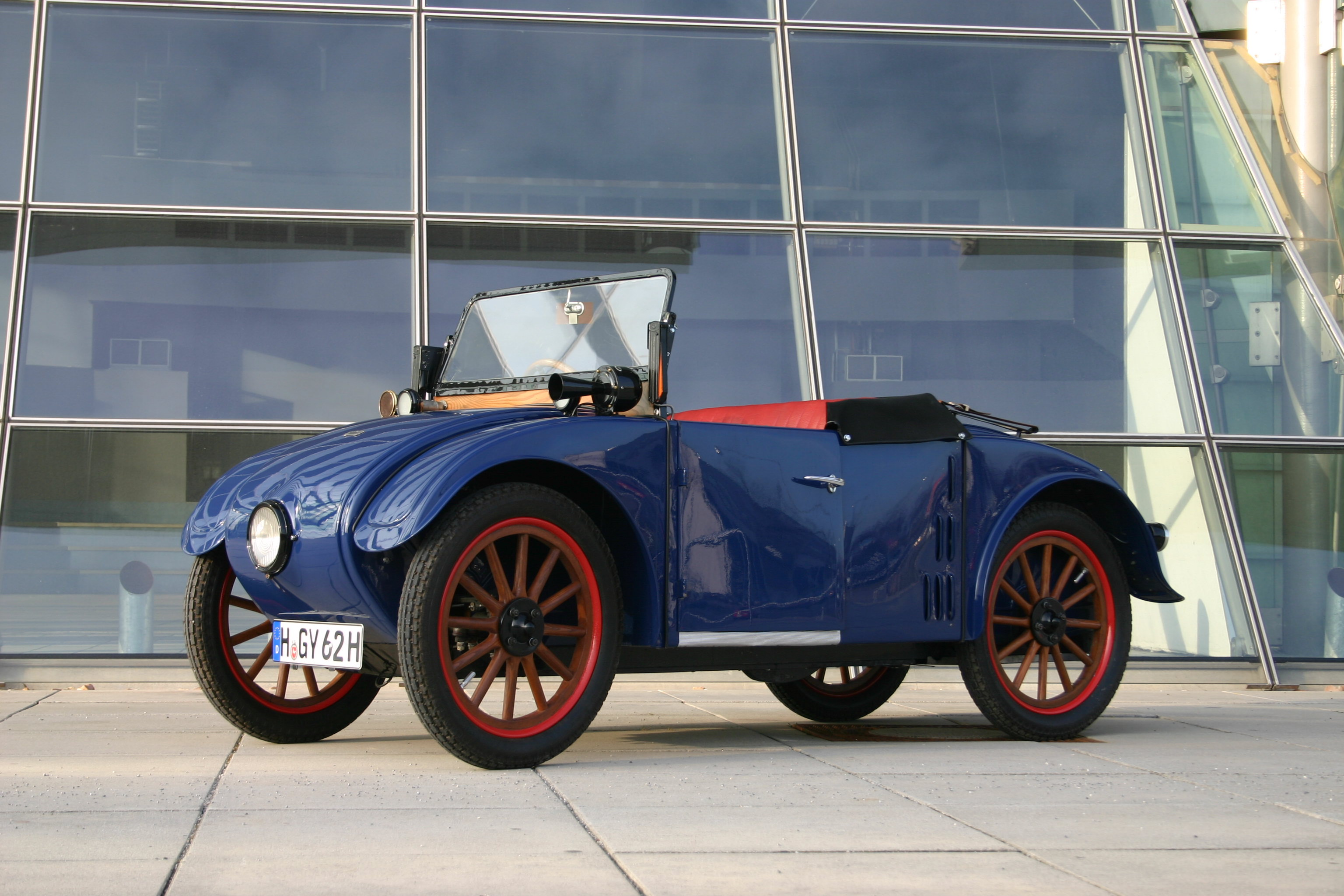 1927 Hanomag 2/10hp in front of German Pavillon, Expo Hannover